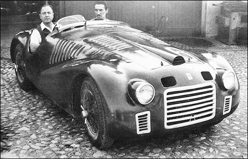 The 1947 Ferrari 125 S s/n 01C on 28 September 1947, in its "final design" (before it was scrapped and/or converted into 010i) [1] having had engine upgrade to 159 and a slight change in the body.According to a blog entry of 25 Januar 2020, this picture seems to belong to Archivio Corrado Millanta, ©The Klemantaski Collection.[2]. It adds, "...we believe, chassis 01C ... showing its new hood scoop to feed the three centrally located Weber carburetors of its now 1.9 liter motor, was modified in house at Ferrari by Aristide Govoni who may well be sitting in the passenger seat ... at the wheel is Signor Armando Pastorino di Tortona, owner of a tool company and a friend of Enzo Ferrari ... it has just been rolled out of the Racing Department where it has been prepared for the Circuito di Modena for sports cars on the next day with its race number 16 visible on the hood and the left side as shown here.